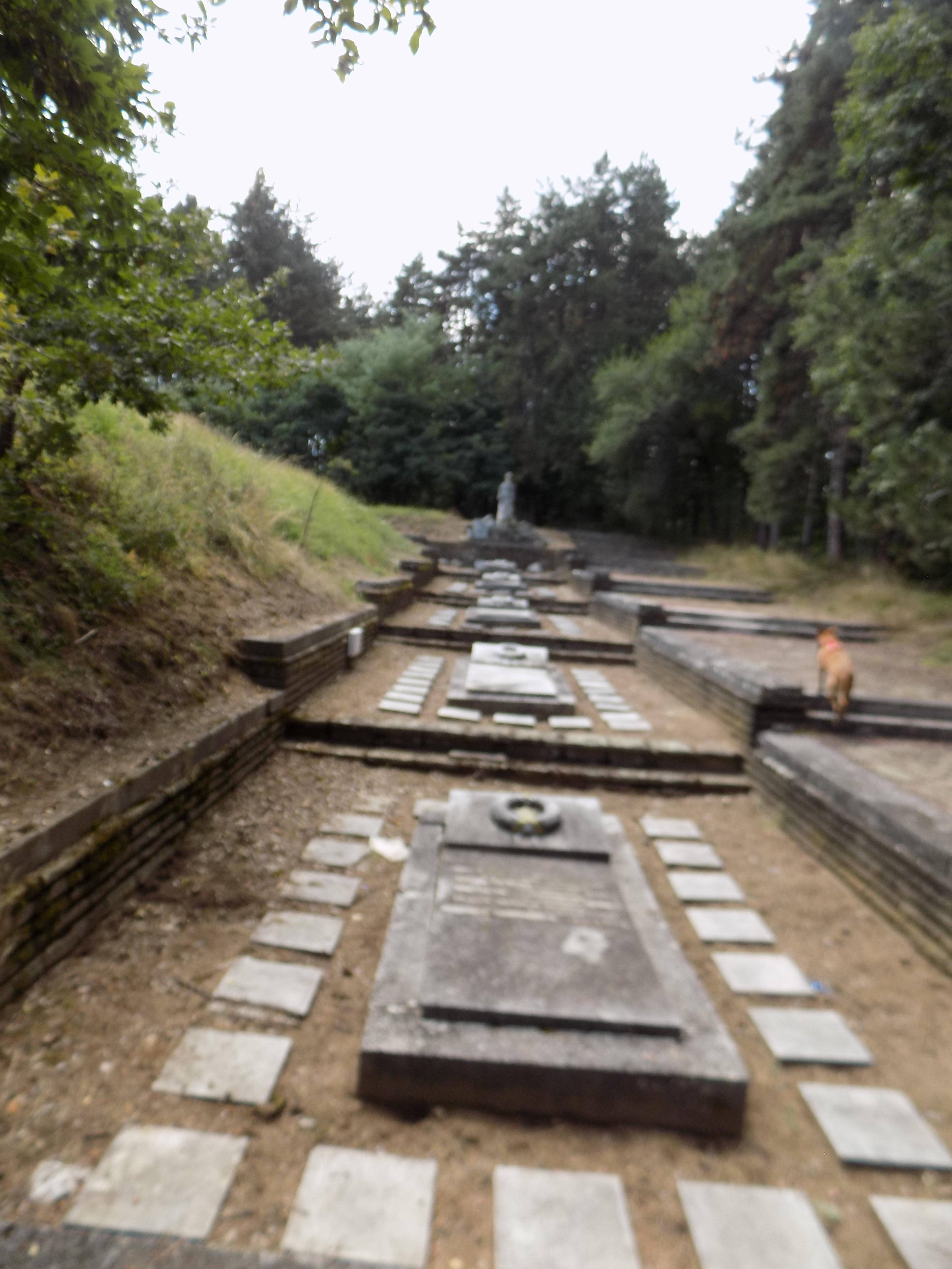 Litakovo